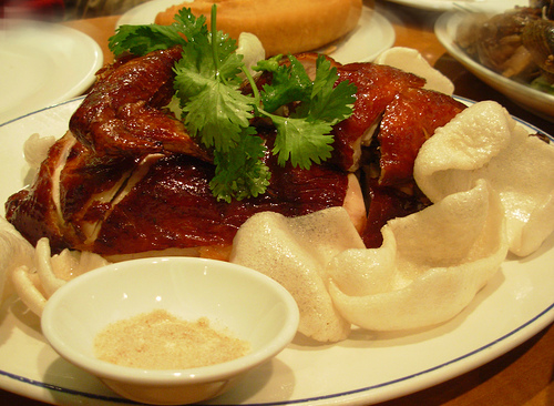 Crispy fried chicken paper fried chicken